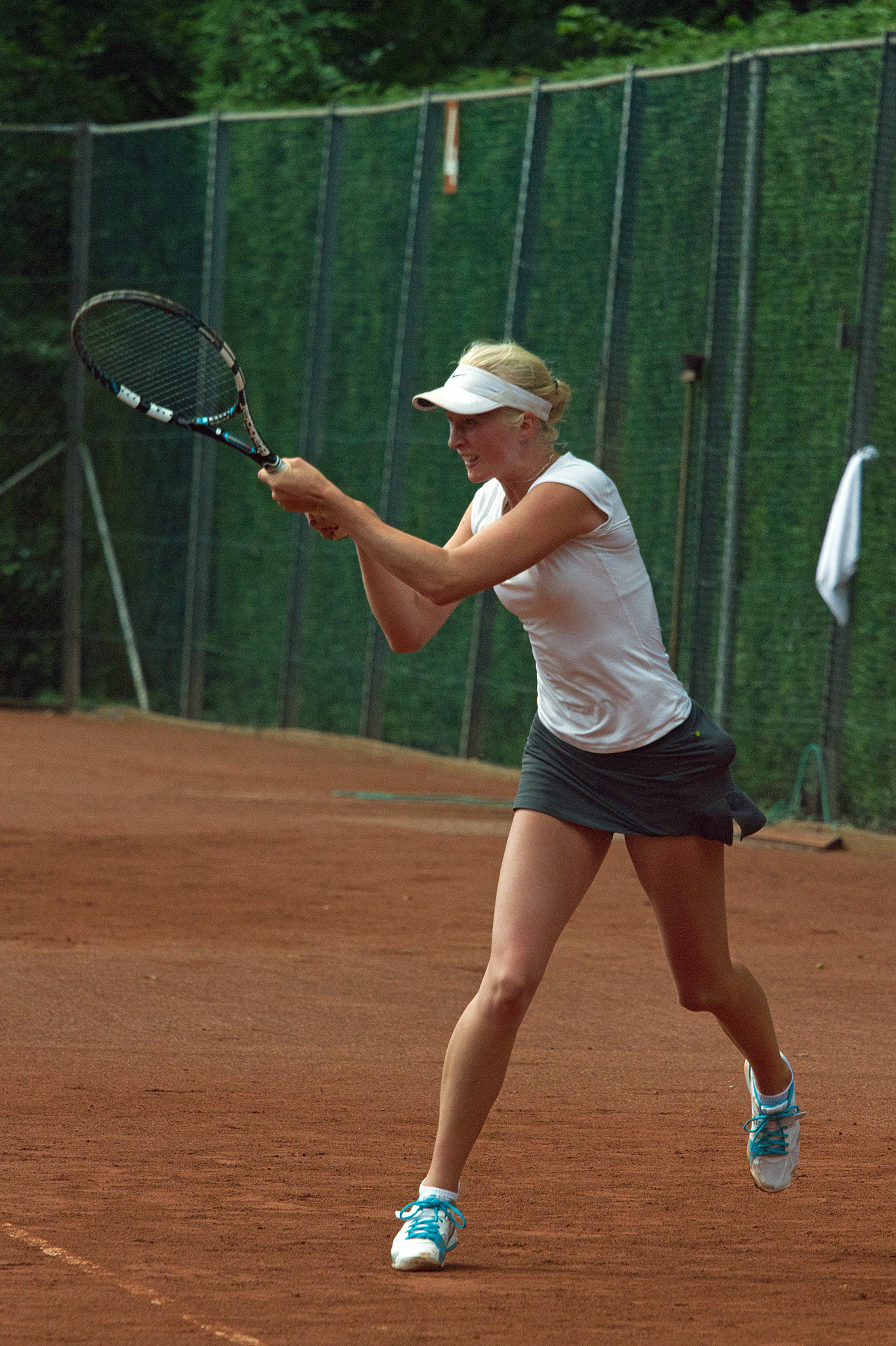 Norwegian tennis player Andrea Raaholdt at the Parker Hannifin Open tournament in Oldenzaal, The Netherlands